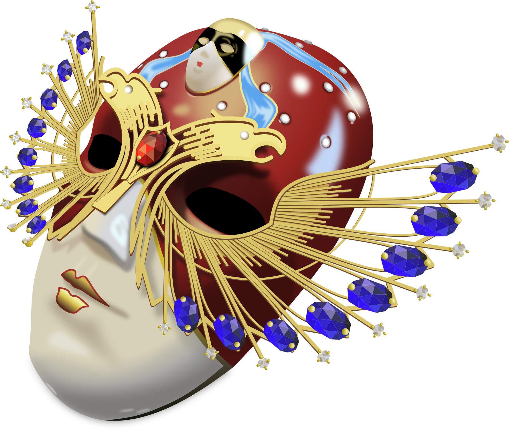 "Golden Mask" - is a Russian theatre festival and the National Theatre Award.